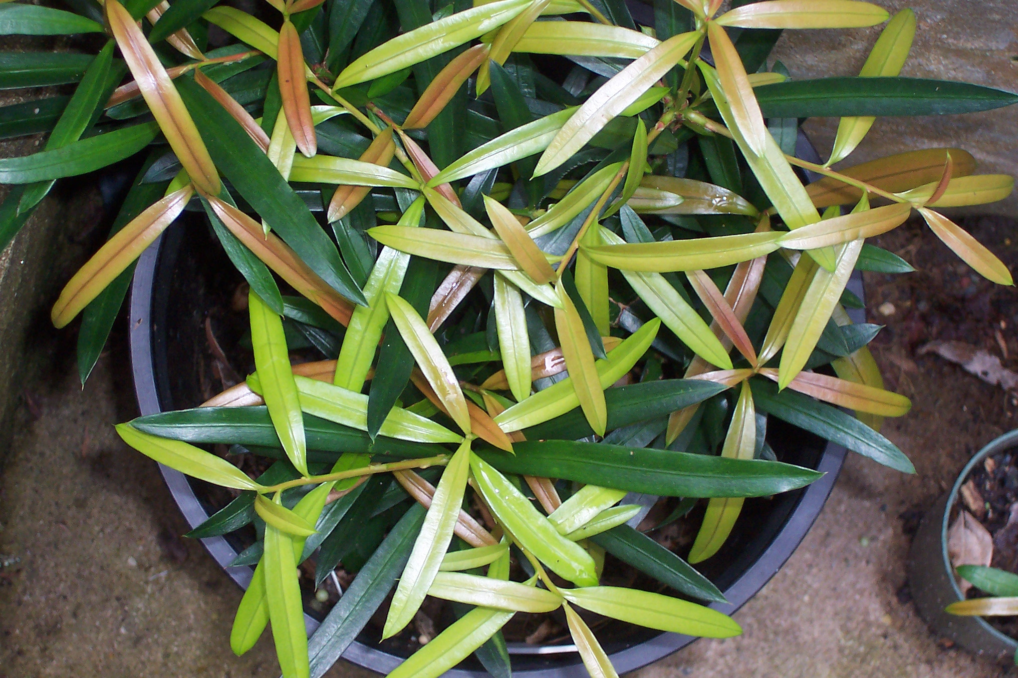 Podocarpus_elatus_-_juvenile, seed source Foxground, near Kiama, NSW